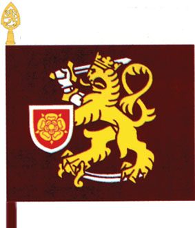 The unit colour of the Finnish National Defence Academy